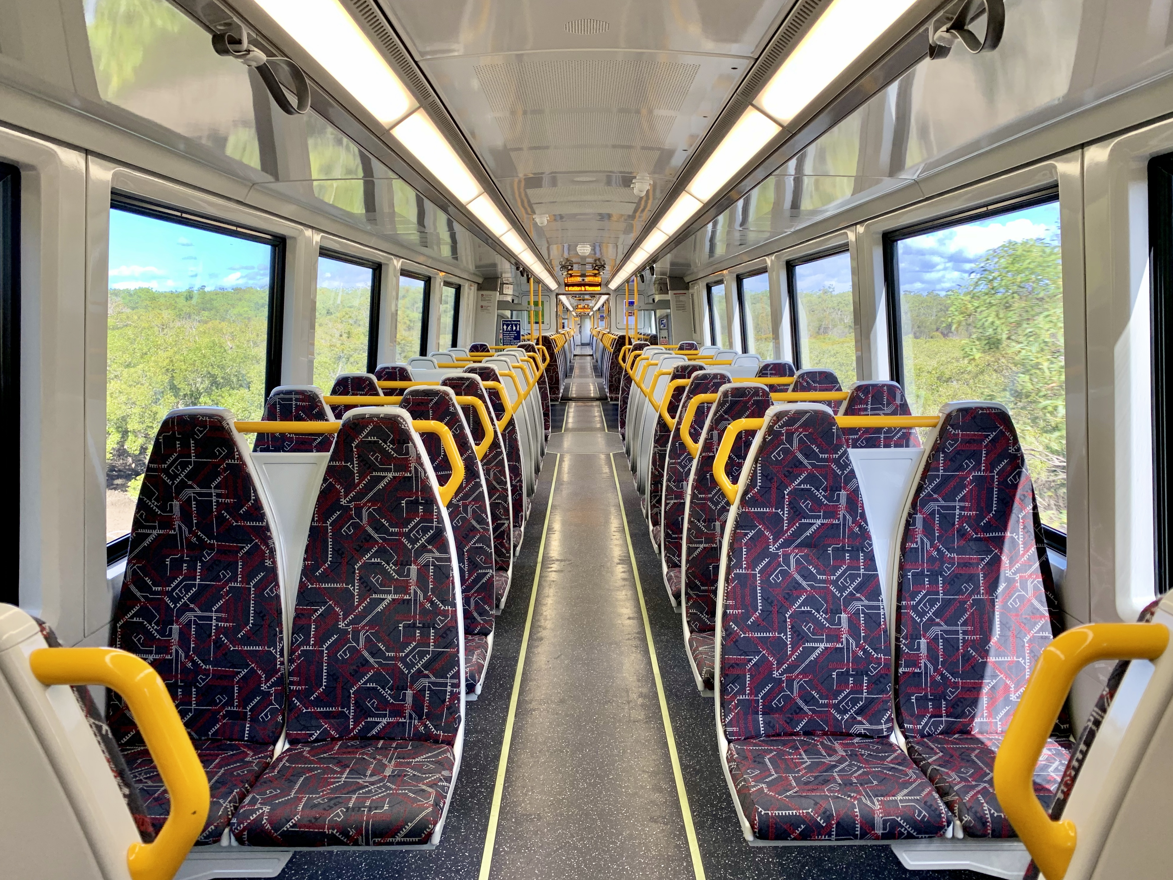 New Generation Rollingstock interior in Queensland, 2020